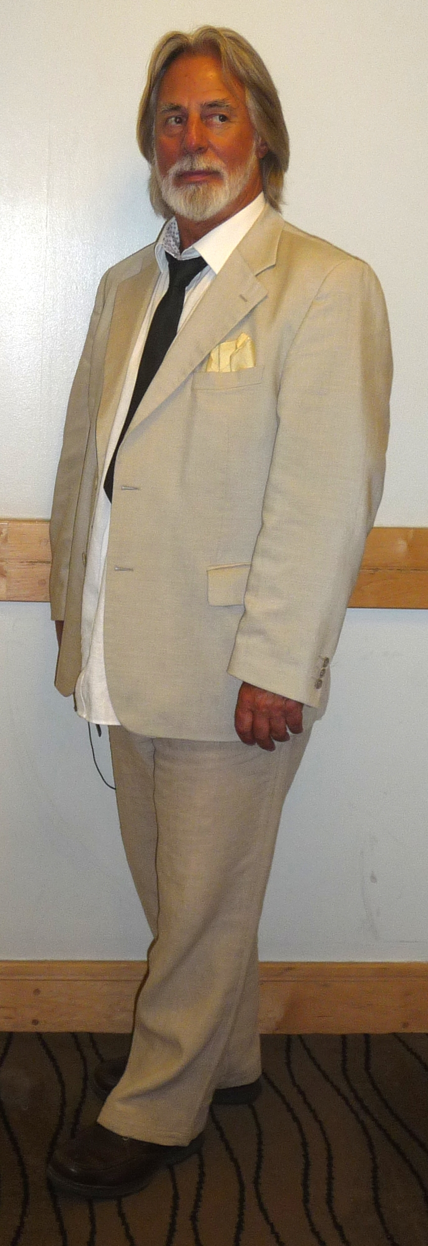 Barrie Rutter, photographed at the KC Stadium on 8 August 2015, before the Hull City v Huddersfield Town match.